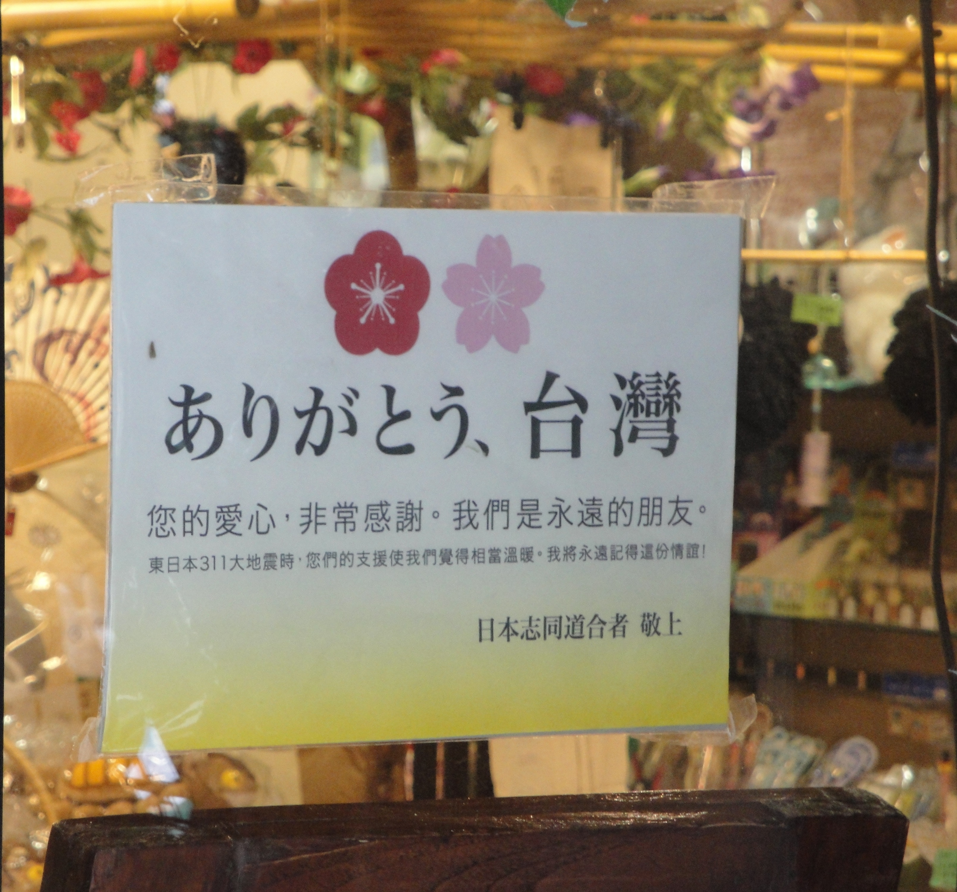 ありがとう、台湾 We, Japan and Taiwan, are Friends Forever! (2011/8/2) 中文（台灣）: 位於日本北海道釧路市阿寒溫泉商家門口所張貼的「感謝台湾」標誌。